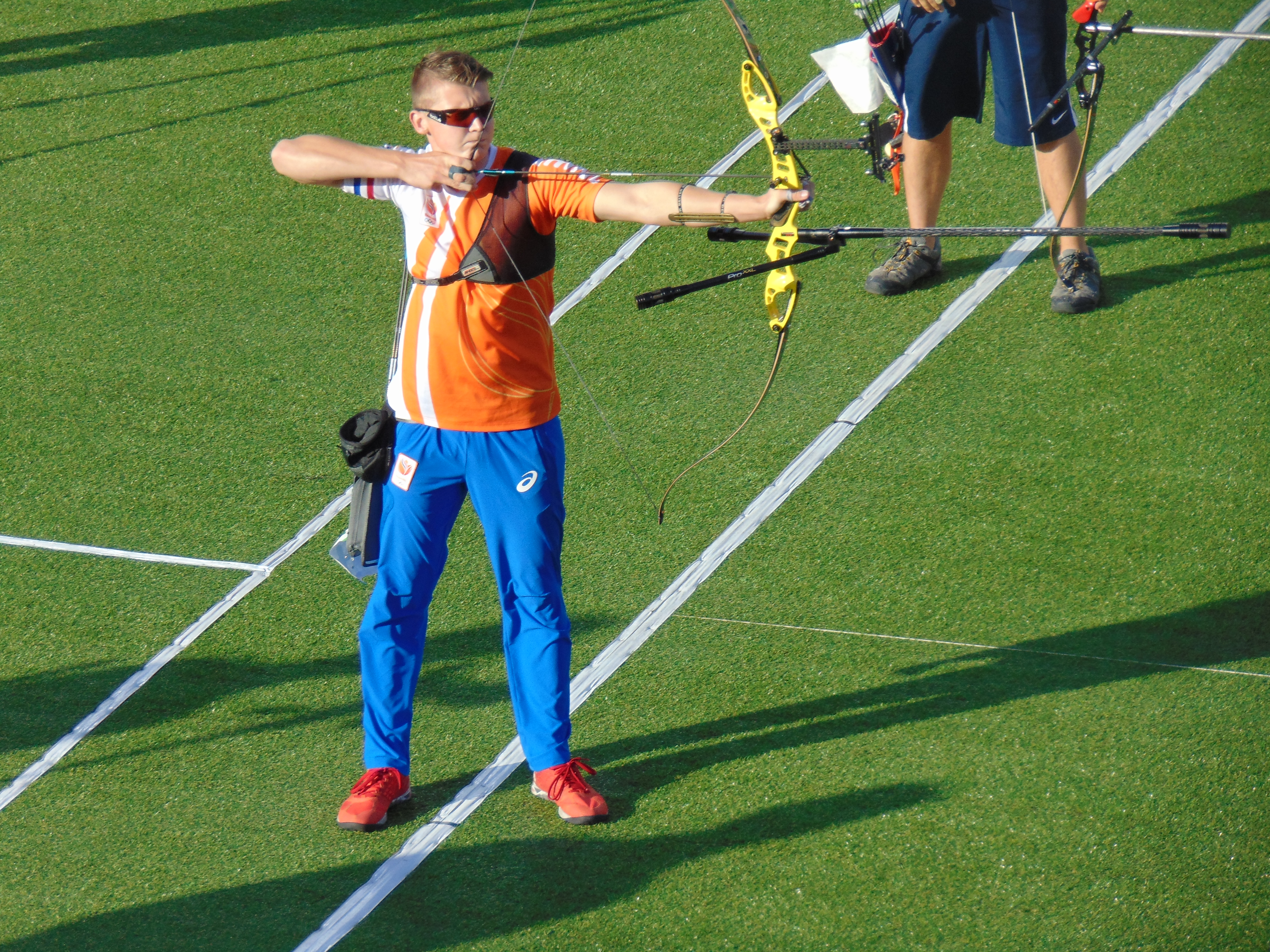 Rio 2016 - Men's archery finals